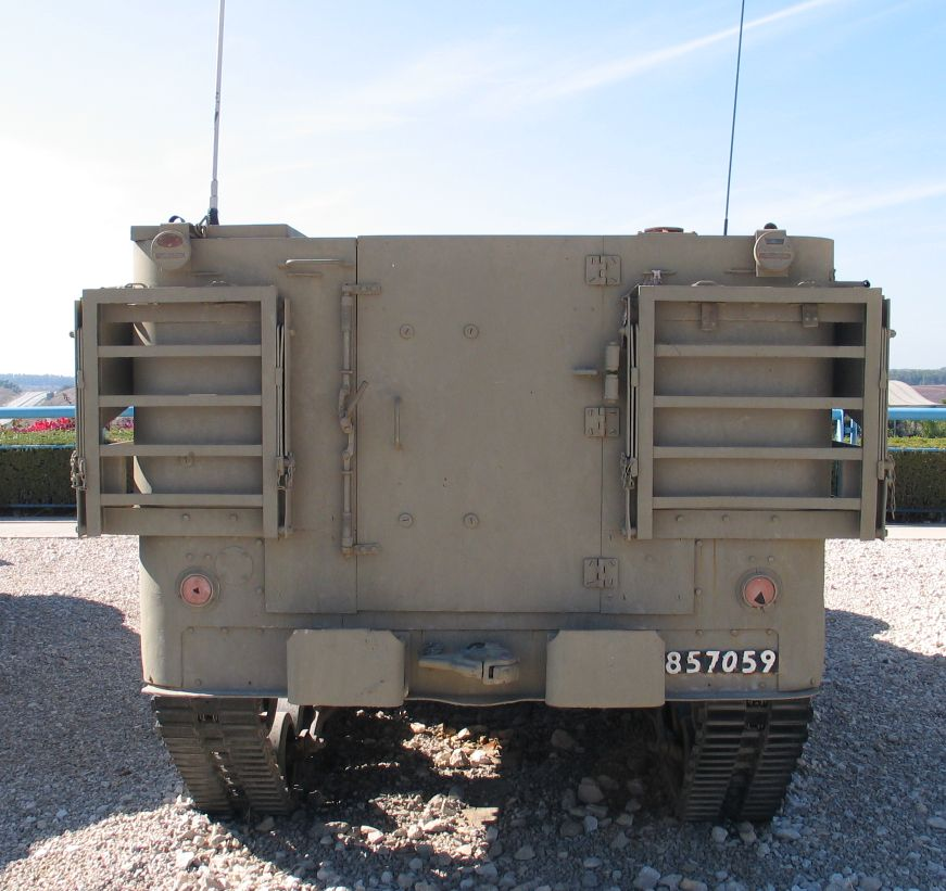 Description: Halftrack (M5/M9) in Yad la-Shiryon Museum, Israel. Source: Photo by me, User:Bukvoed.